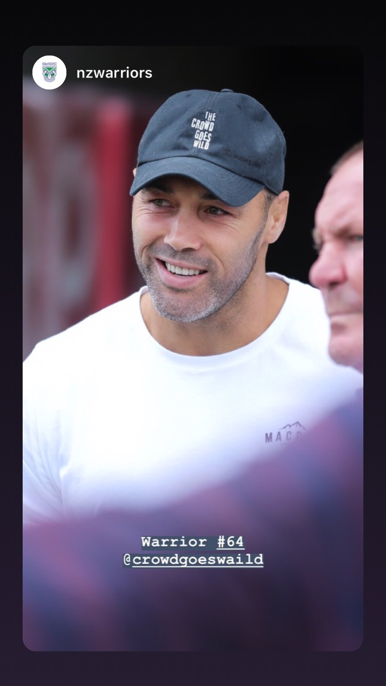 2019 Warriors old boys reunion